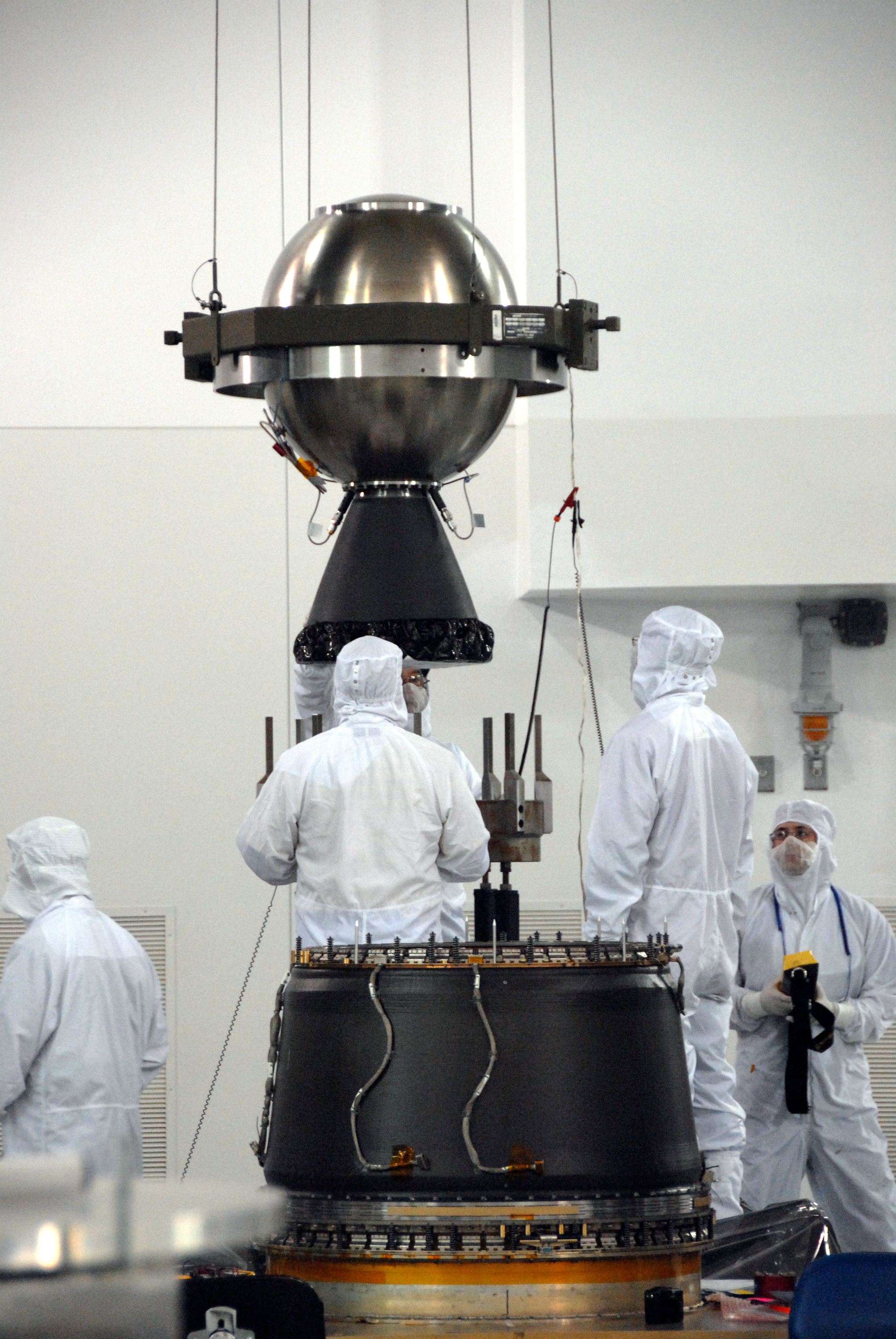 VANDENBERG AIR FORCE BASE, Calif. – At Vandenberg Air Force Base in California, technicians help guide the Star-27 kick motor and nozzle for NASA's Interstellar Boundary Explorer, or IBEX, mission spacecraft. The motor will be lifted and moved to the waiting adapter cone. The IBEX satellite will make the first map of the boundary between the Solar System and interstellar space. IBEX is the first mission designed to detect the edge of the Solar System. As the solar wind from the sun flows out beyond Pluto, it collides with the material between the stars, forming a shock front. IBEX contains two neutral atom imagers designed to detect particles from the termination shock at the boundary between the Solar System and interstellar space. IBEX also will study galactic cosmic rays, energetic particles from beyond the Solar System that pose a health and safety hazard for humans exploring beyond Earth orbit. IBEX will make these observations from a highly elliptical orbit that takes it beyond the interference of the Earth's magnetosphere. IBEX is targeted for launch from the Pegasus XL rocket on Oct. 5.